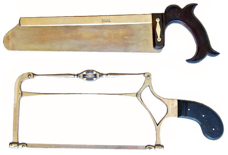 Surgical saws from catalogue of "John Weiss & Son"